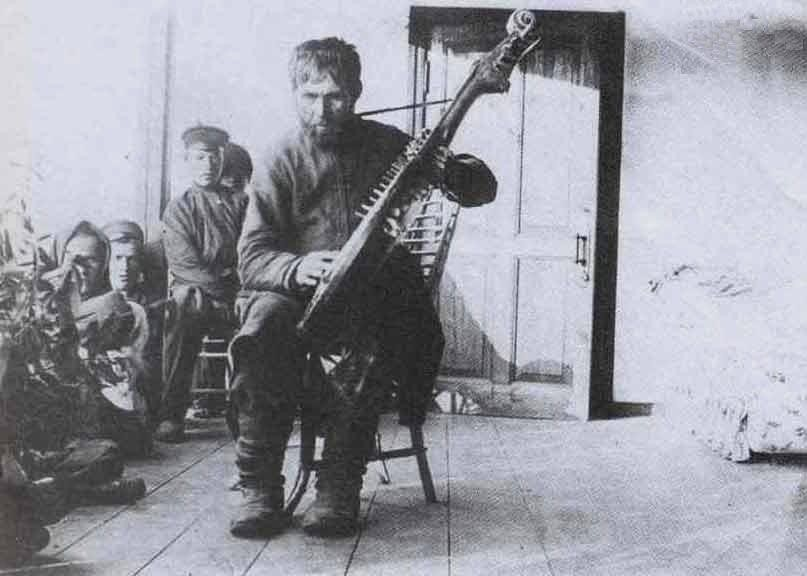 Kobzar Michael S. Kravchenko at the cottage V. Korolenko, 1911